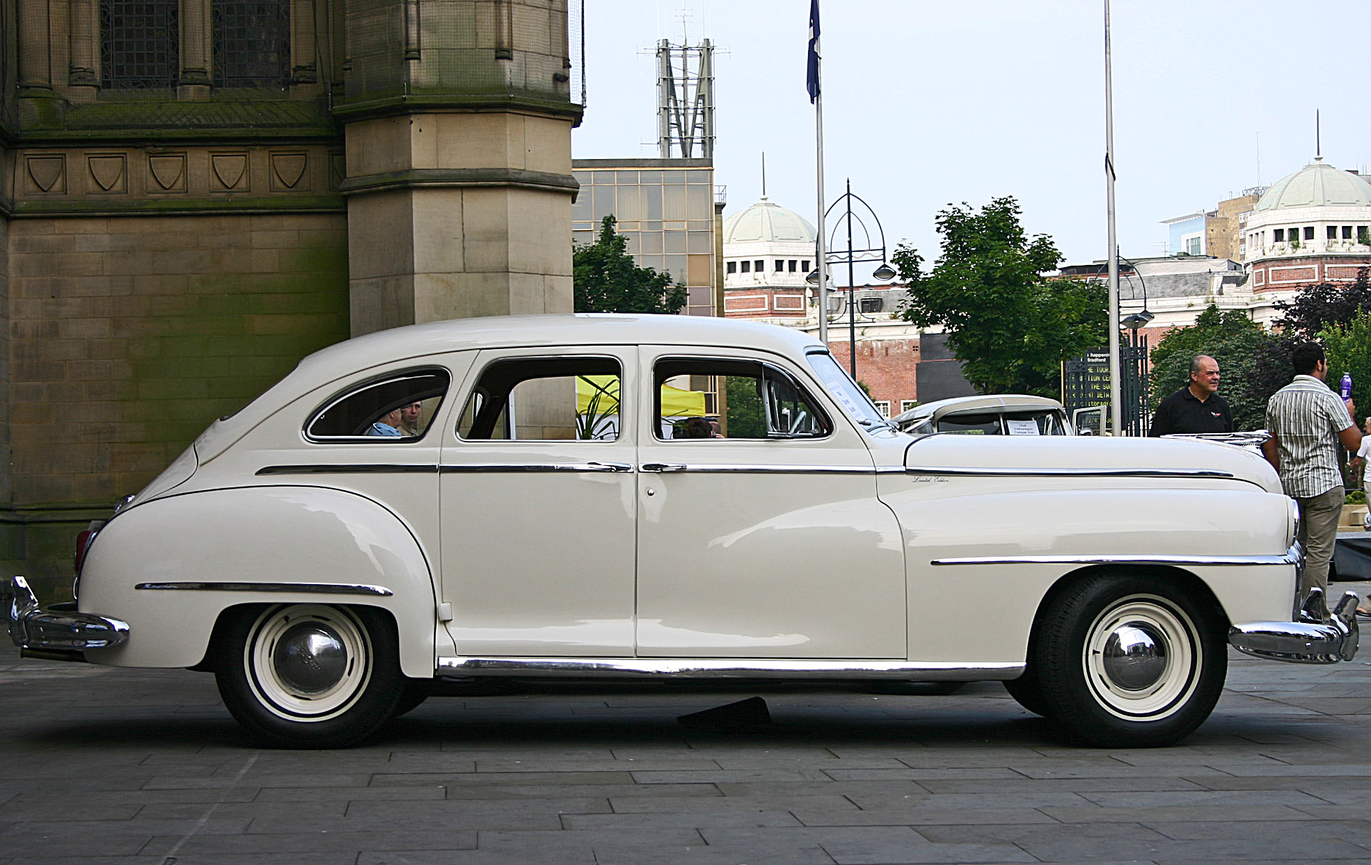 Here is a photo of the Chrysler DeSoto 1946 model. Bodywork is the same as the pre-war version except for conventional headlamps in place of fold away lamps. I (Simon GP Geoghegan: ) am the photographer of this vehicle, and I shot this in August 2006 in Bradford, United Kingdom